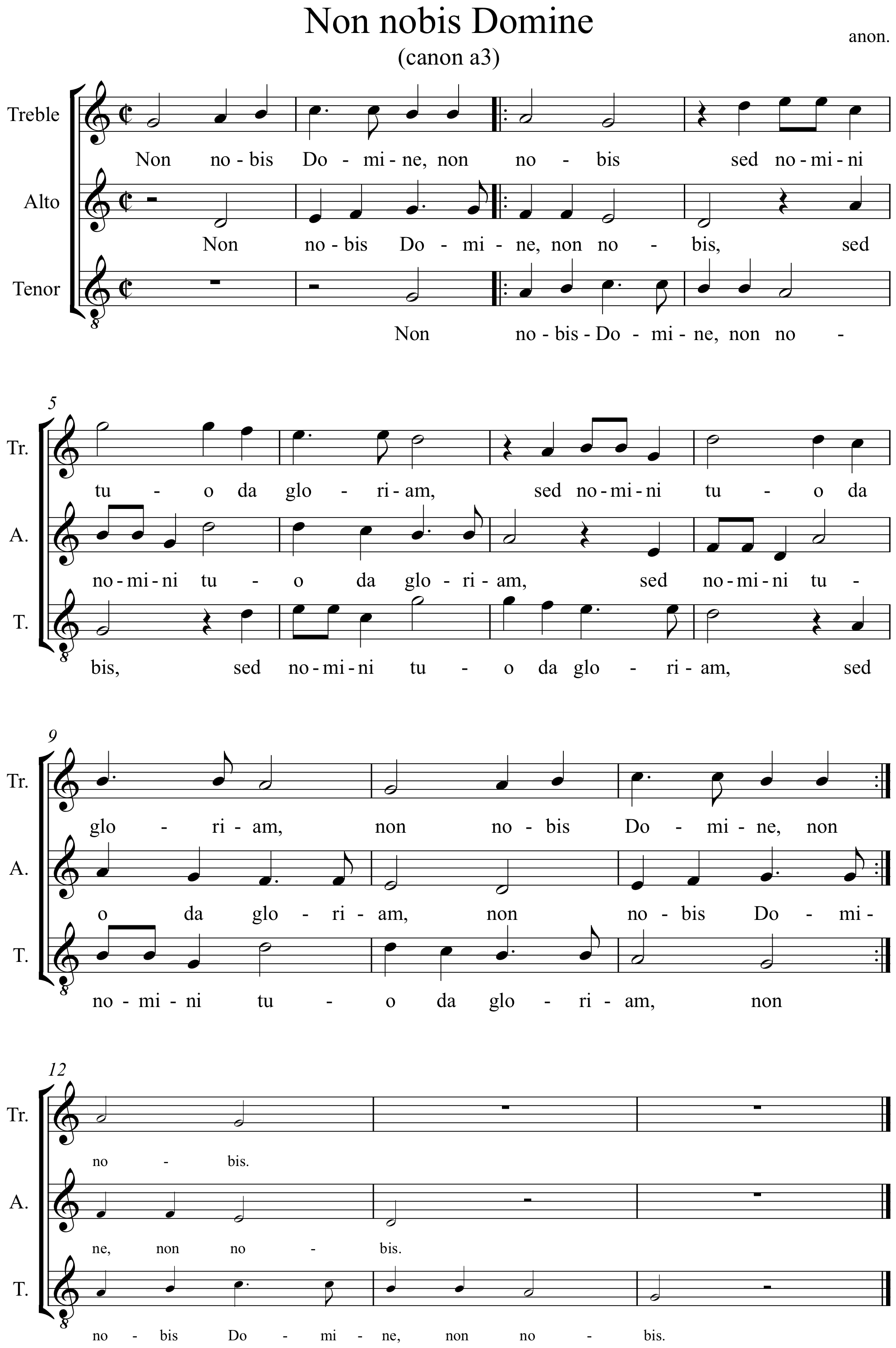 An anonymous three-part canon dating from c. 1605.